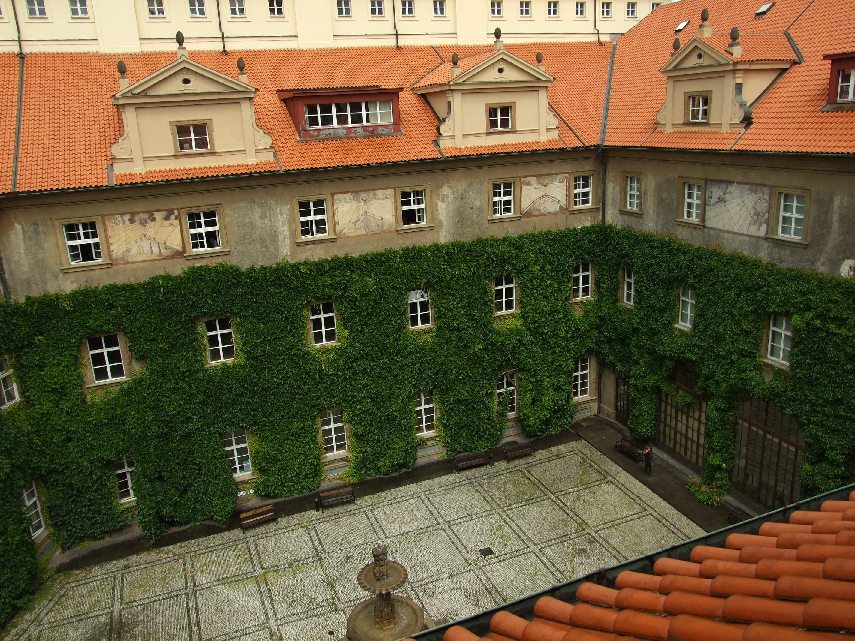 Prague Clementinum seen from top floor, where Slavic library is situated. Prague, CZhelp